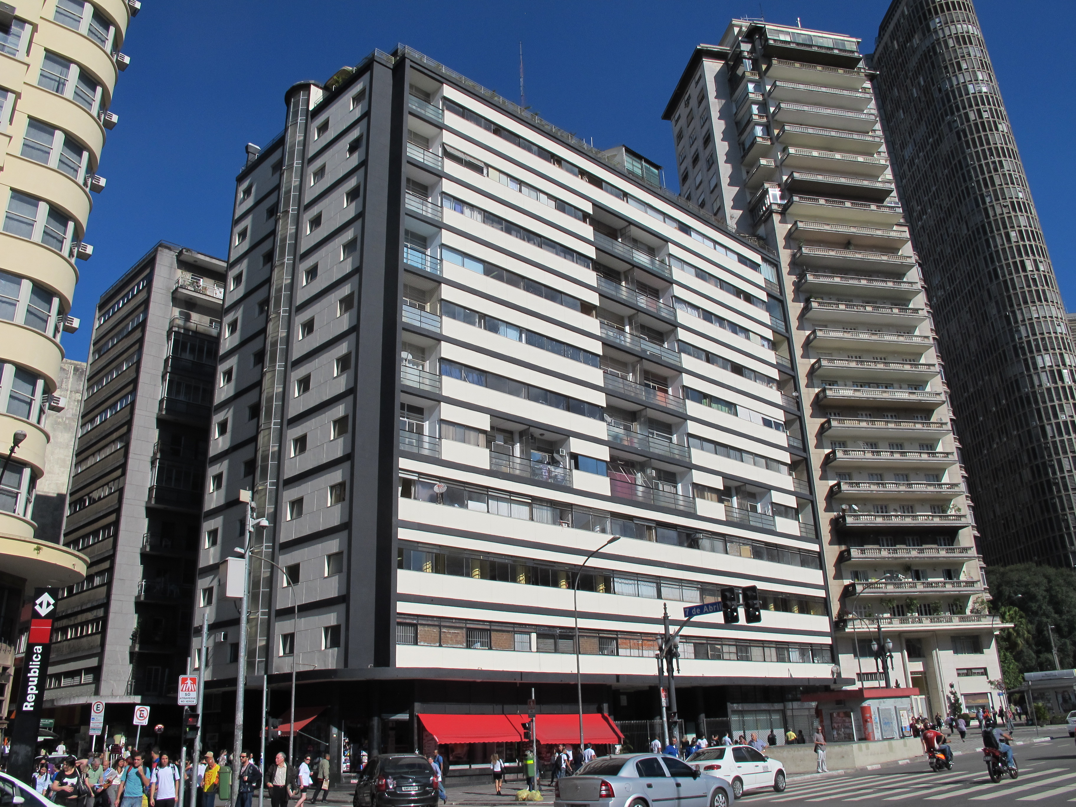 Edifício Esther (center), with Edifício São Tomas and Edifício Itália to the right. July 2012, São Paulo